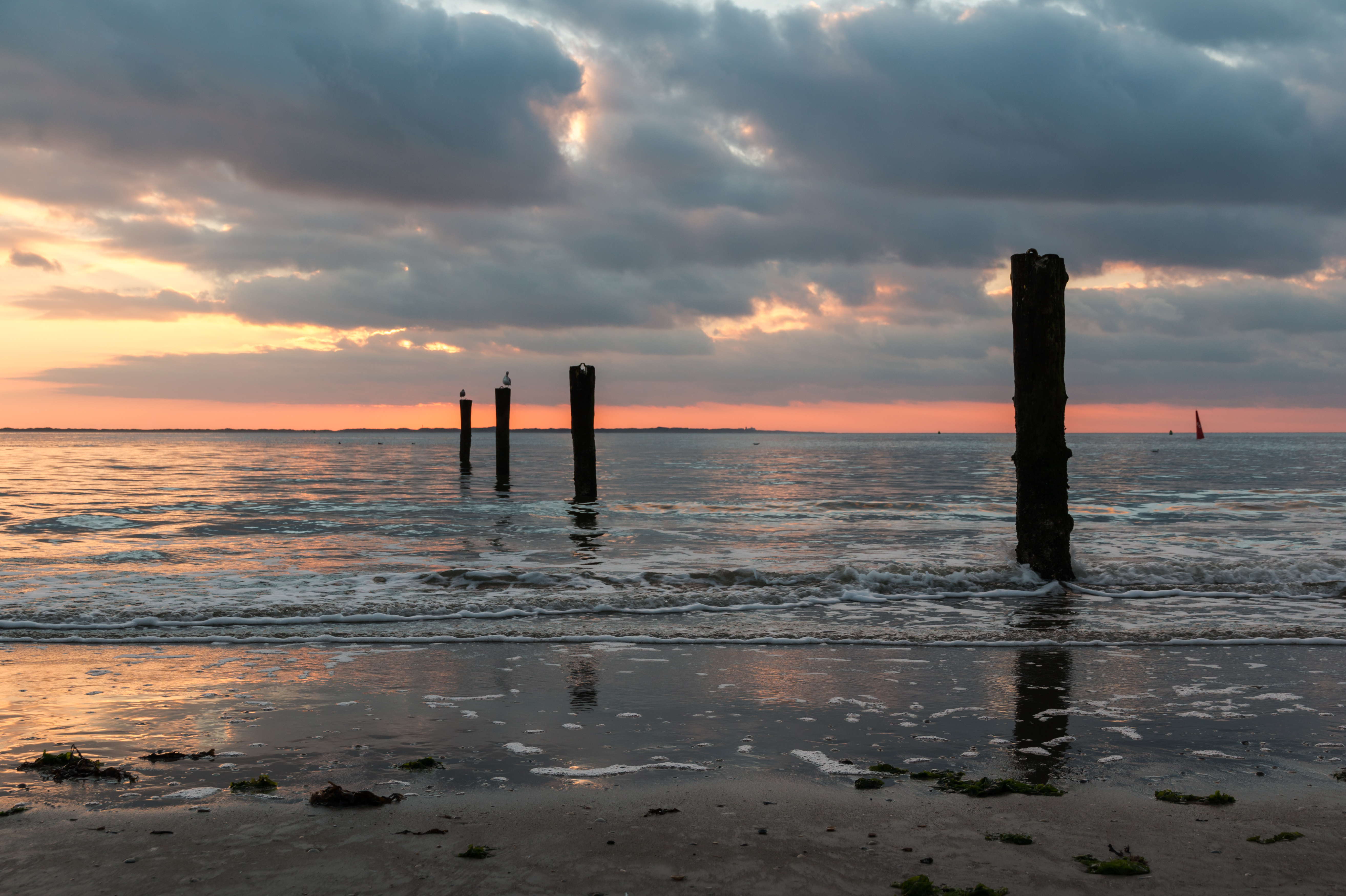 Sunset at beach “Weststrand” of Norderney, Lower Saxony, Germany